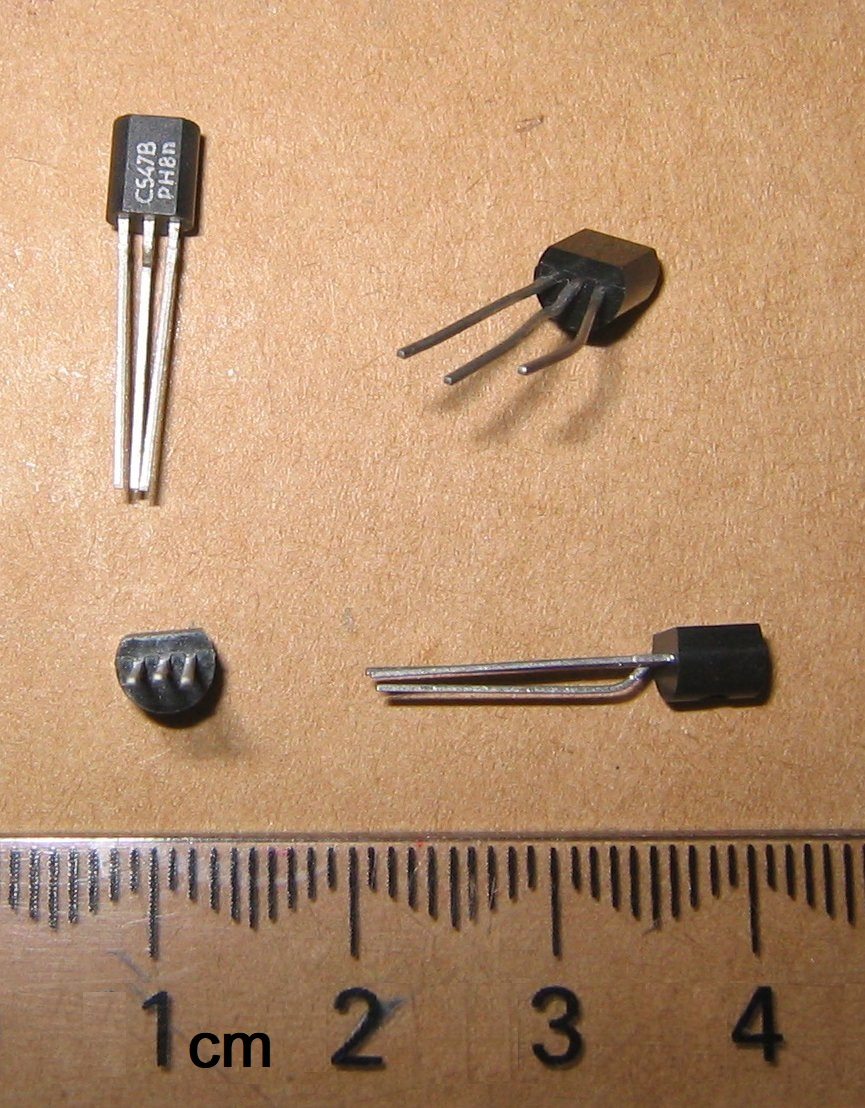 Different angles of electronic components in a TO-92 package. The different views are arranged as a third angle projection and a fourth perspective view. The rule is marked in centimetres.